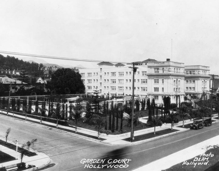 Garden Court Apartment Hotel exterior, at 7021 Hollywood Blvd. Two automobiles are visible at extreme right. Circa 1920s.